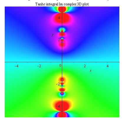 Tanhc integral Im density plot